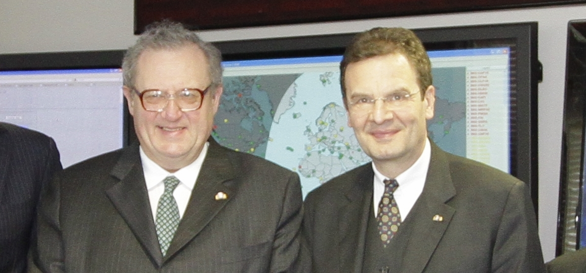 A high-level delegation of the Sovereign Military Order of Malta visits the OPs Centre on 28 February2012 at the CTBTO's headquarters in Vienna, Austria. Left to right: The Prince and Grand Master of the Sovereign Military Order of Malta Fra’ Matthew Festing, Grand Hospitaller Bailli Albrecht Freiherr von Boeselager Copyright CTBTO Preparatory Commission Photo taken by Pablo Mehlhorn